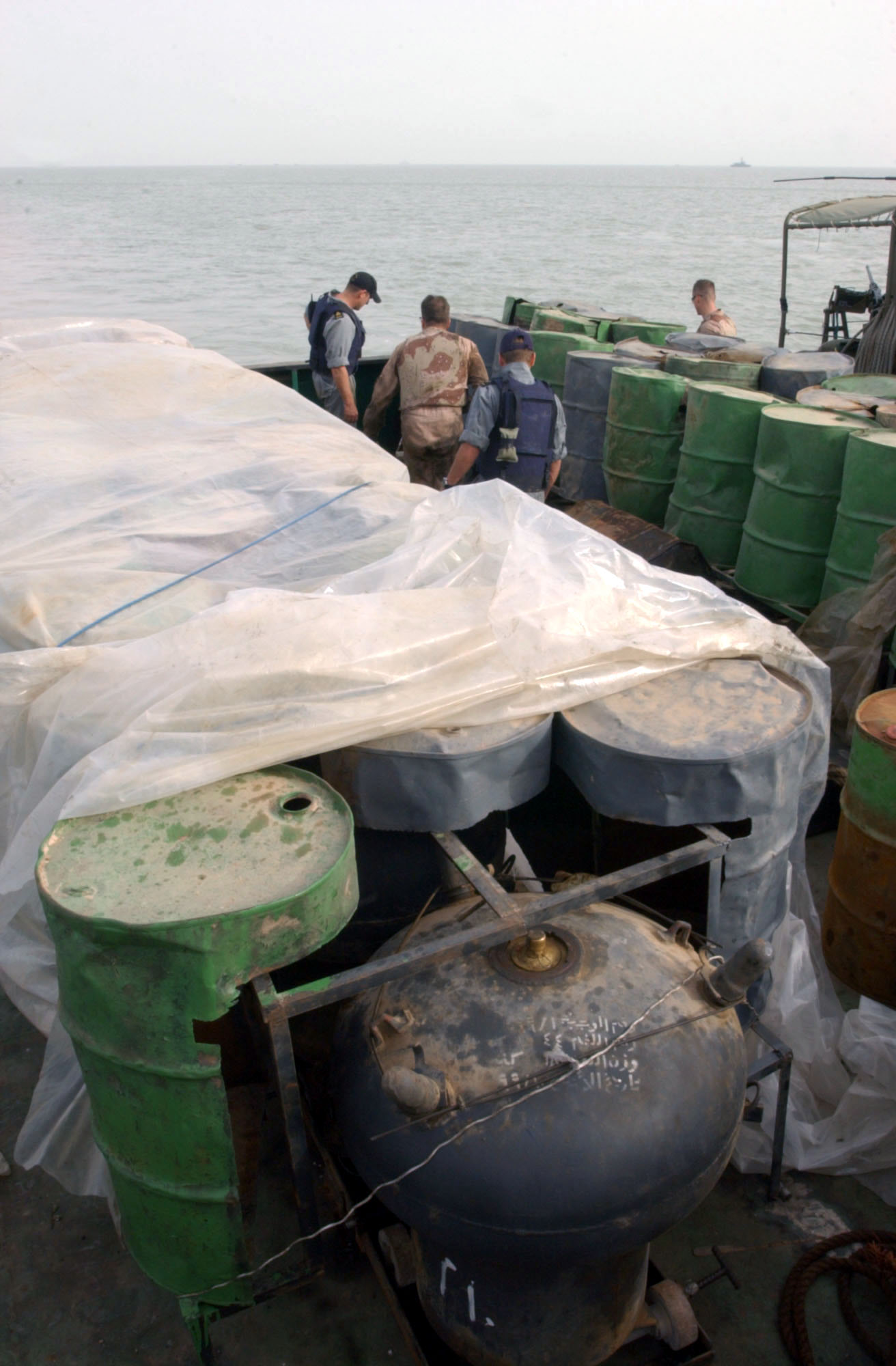 The Arabian Gulf (Mar. 21, 2003) -- Coalition Navy Explosive Ordnance Disposal (EOD) team members inspect camouflaged mines hidden inside oil barrels on the deck of an Iraqi shipping barge. The shipping barge was intercepted and inspected by Coalition Maritime Interdiction Operation (MIO) and Vessel Board Search and Seizure (VBSS) teams from the patrol craft USS Chinook (PC 9) in the early hours of Operation Iraqi Freedom. Operation Iraqi Freedom was the multi-national coalition effort to end the regime of Saddam Hussein. U.S. Navy photo by Photographer’s Mate 2nd Class Richard Moore. (RELEASED)